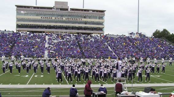 Kansas State University Marching Band, at Bill Snyder Family Stadium in Manhattan, KS performing Bohemian Rhapsody by Queen.